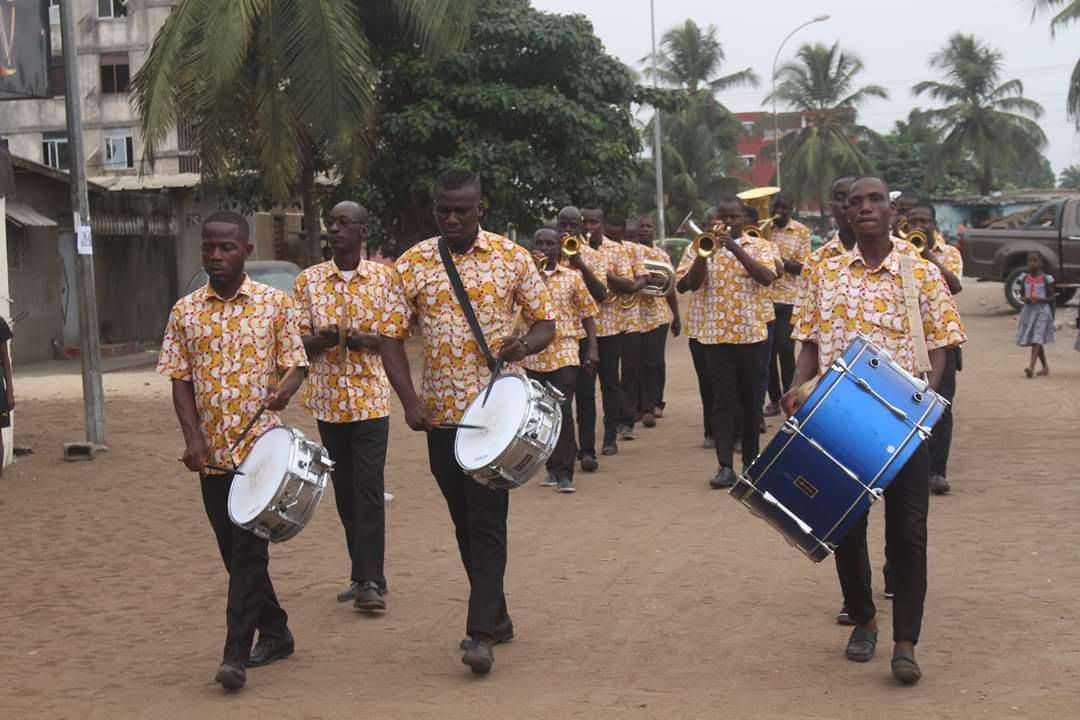 This is an image with the theme "Africa on the Move or Transport" from: Ivory Coast